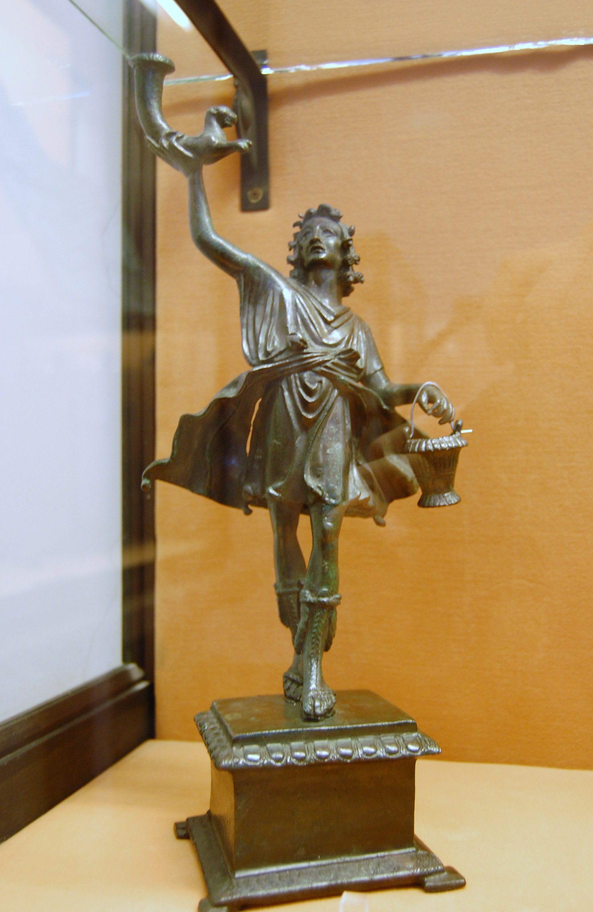 Lar - Naples National Archaeological Museum